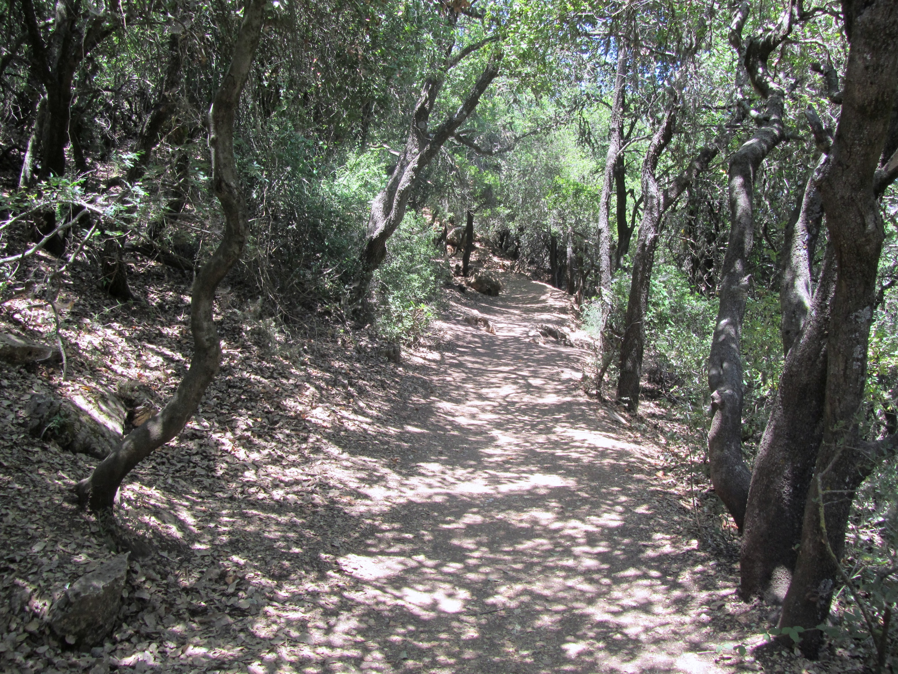 Nahal Moran, Har Meron